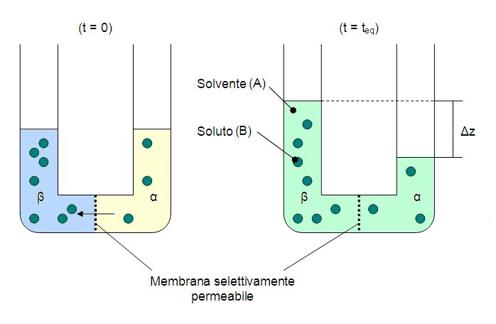 Osmotic pressure experiment.